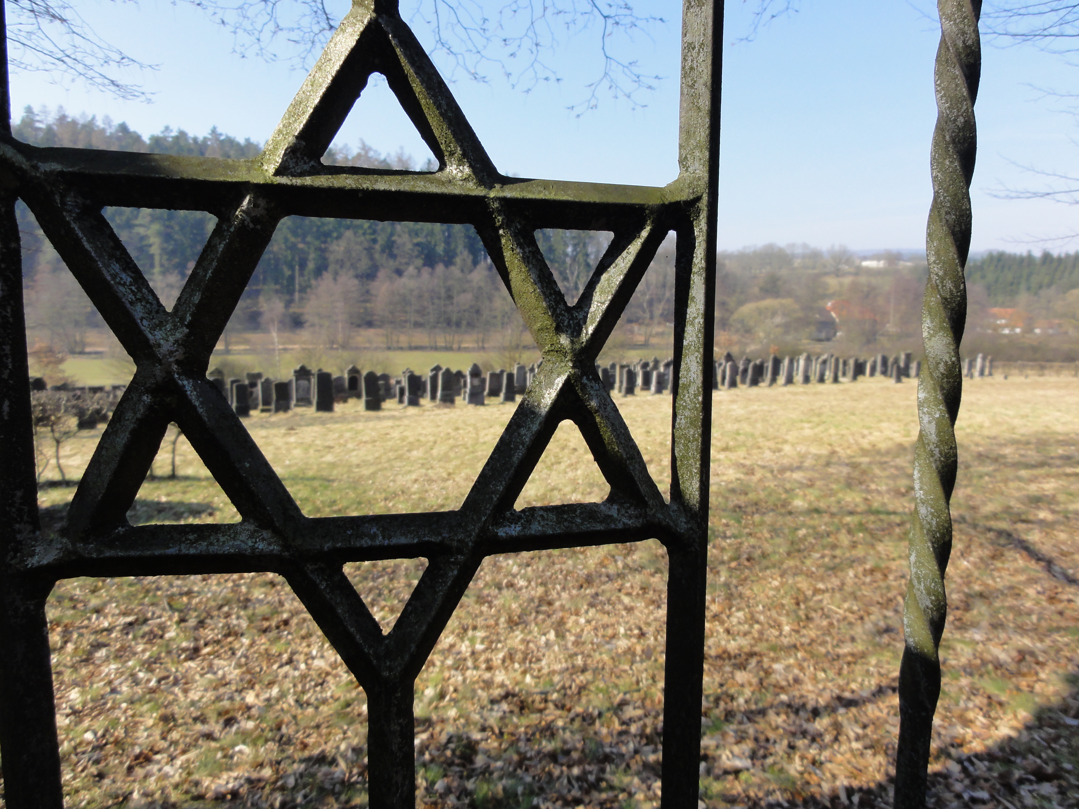 Entrance to the Jewish cemetery Haunetal